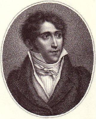 Photo circa 1810